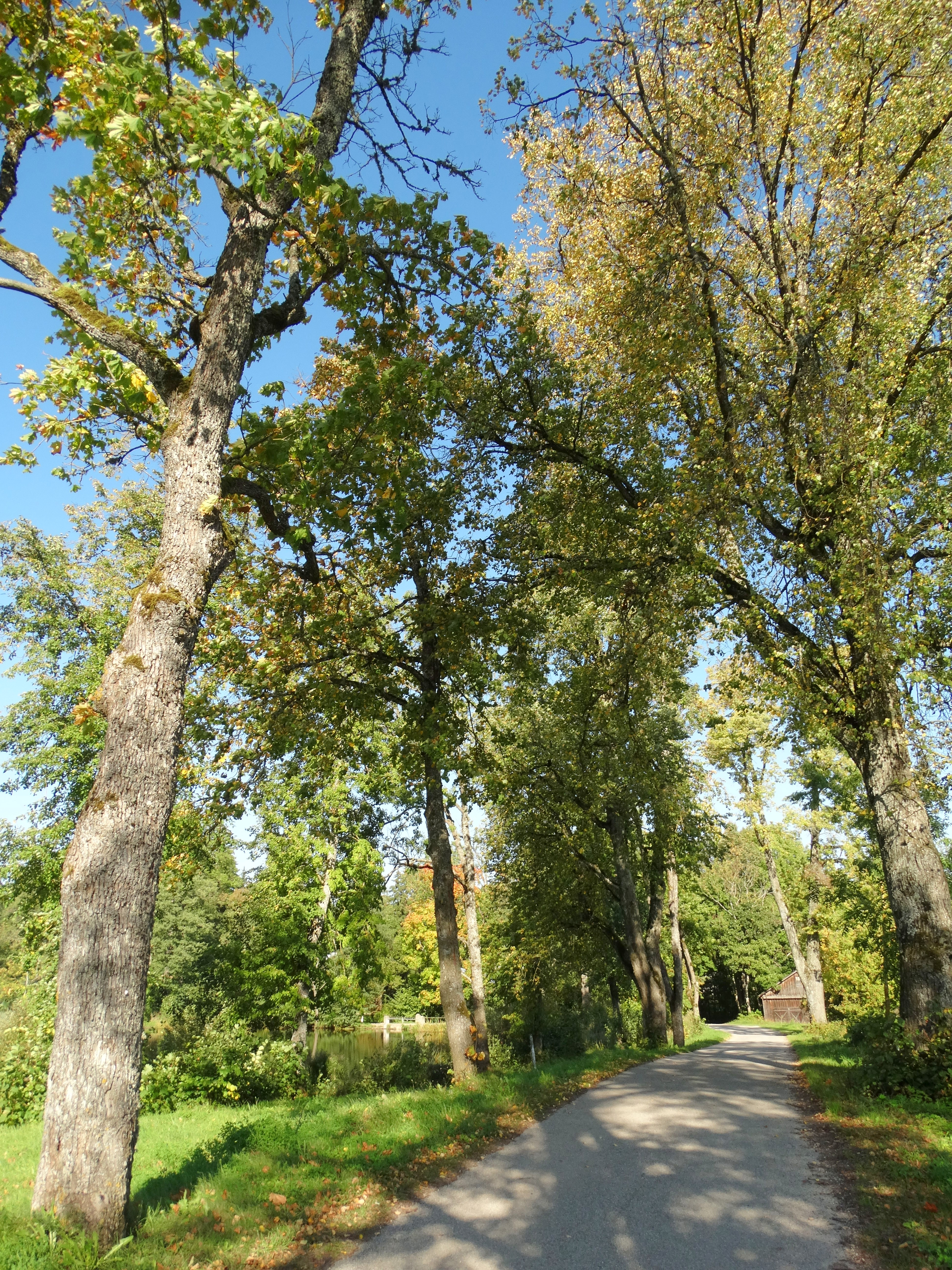 Jasonys, Utena District, Lithuania